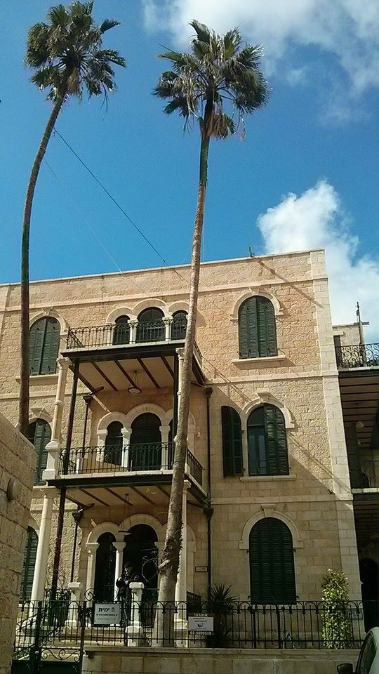 Jerusalem, 8 Rabbi Akiva Street.